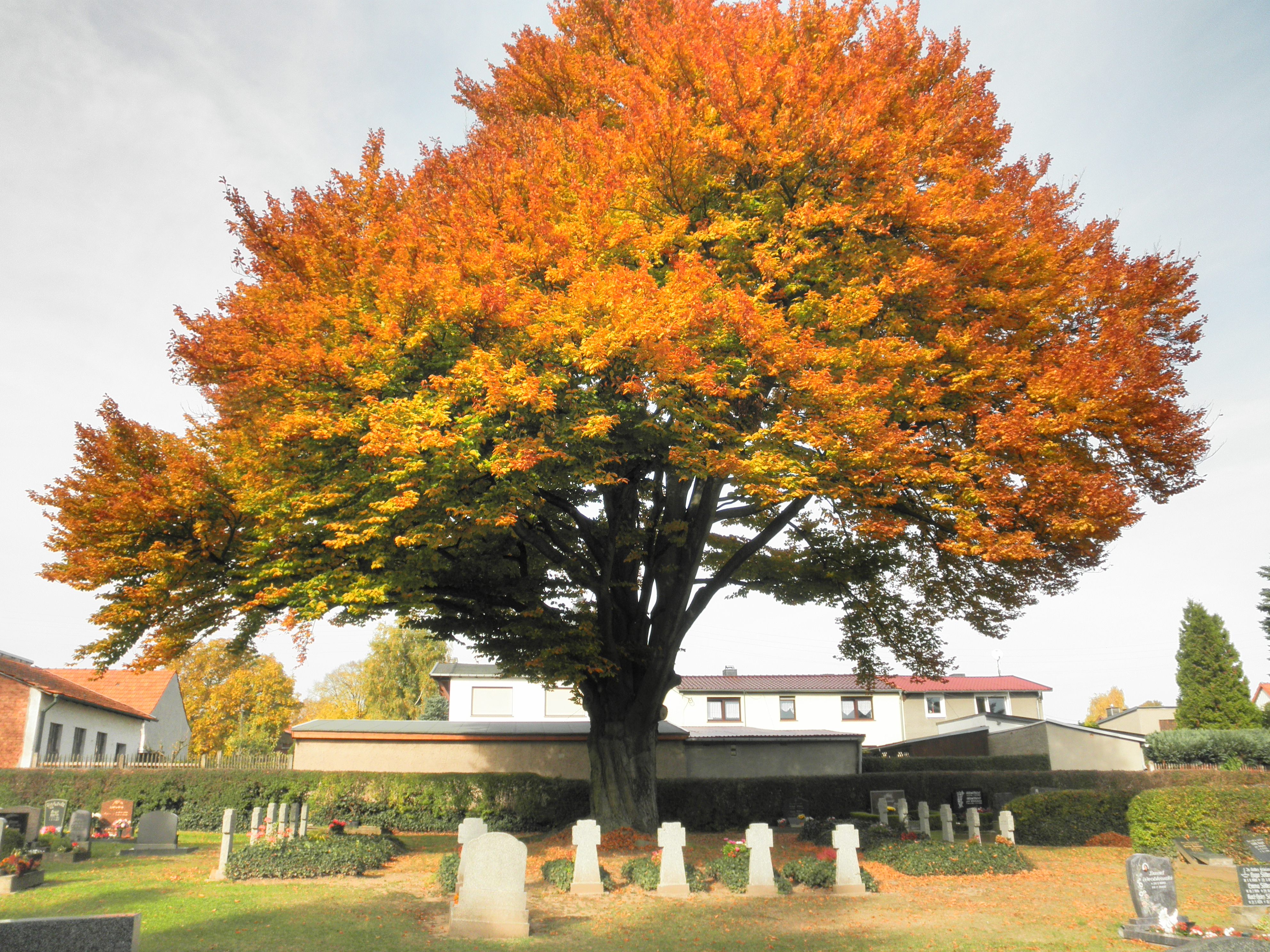 Soldiers Graves in Schernberg (Sondershausen) in Thuringia